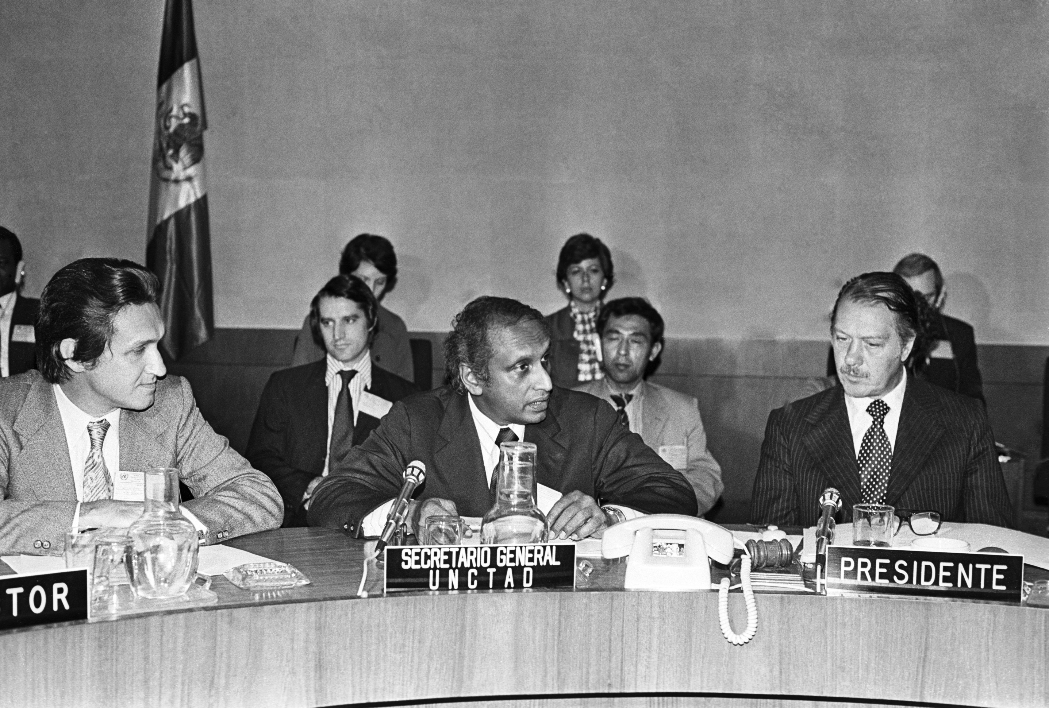 Third session of the Conference (UNCTAD III), held in Santiago, Chile (13 April - 21 May 1972)